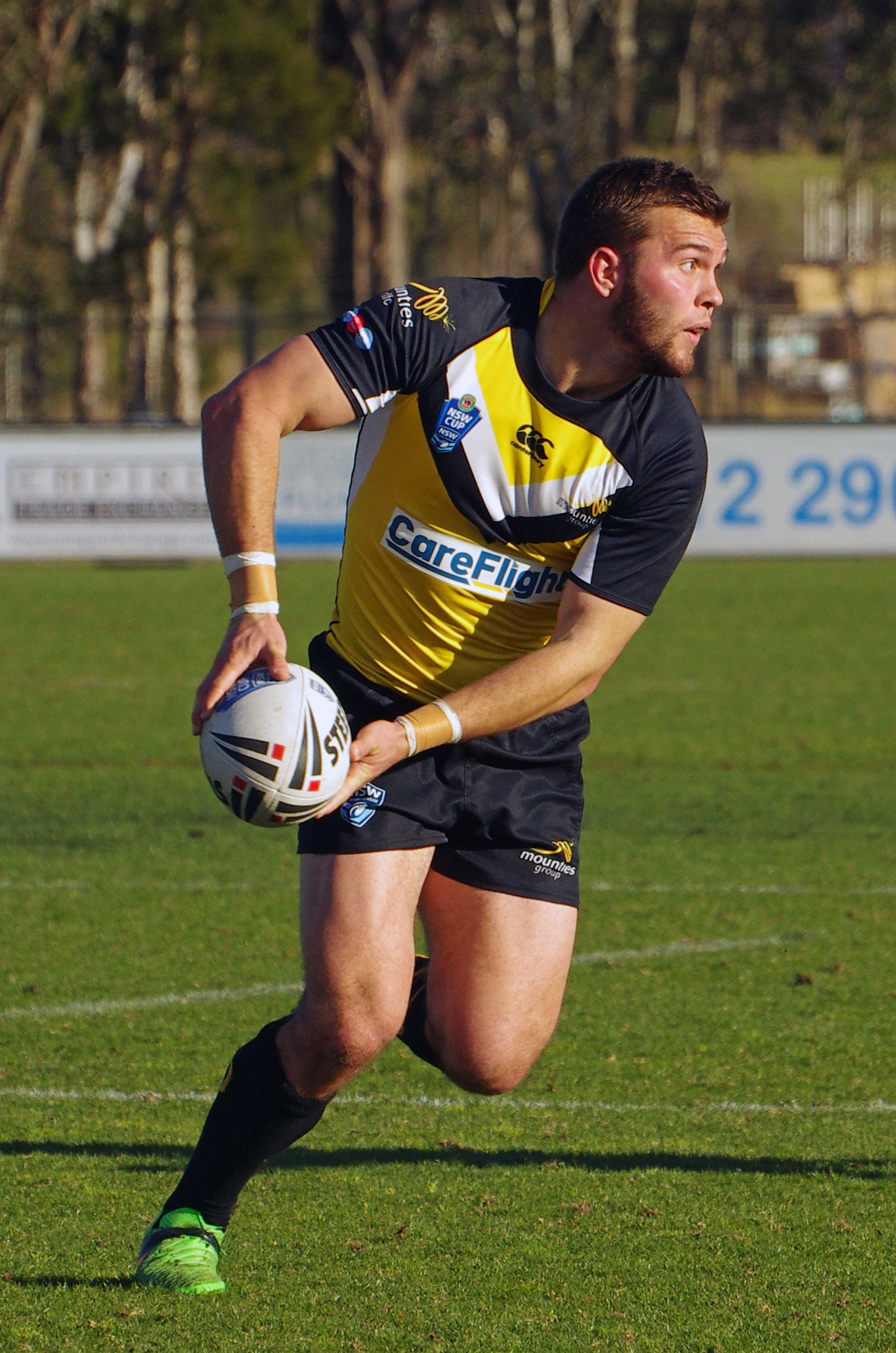 Mitch Cornish